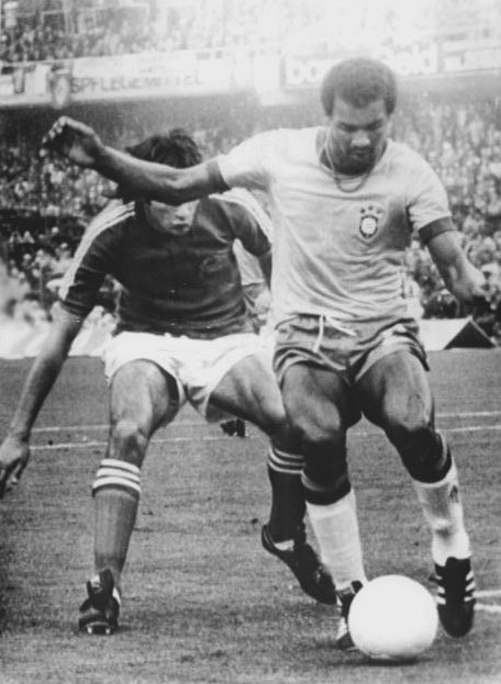 Luís Pereira (right) and Dražen Mužinić. From the 1974 football (soccer) world cup, Frankfurt-Main. Brazil - Yugoslavia 0-0.